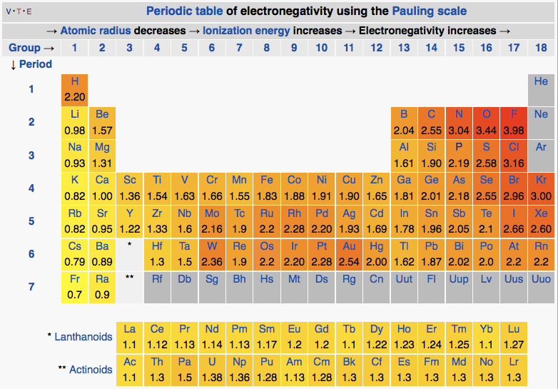 screen shot of wikipedia table of Pauling electronegativities